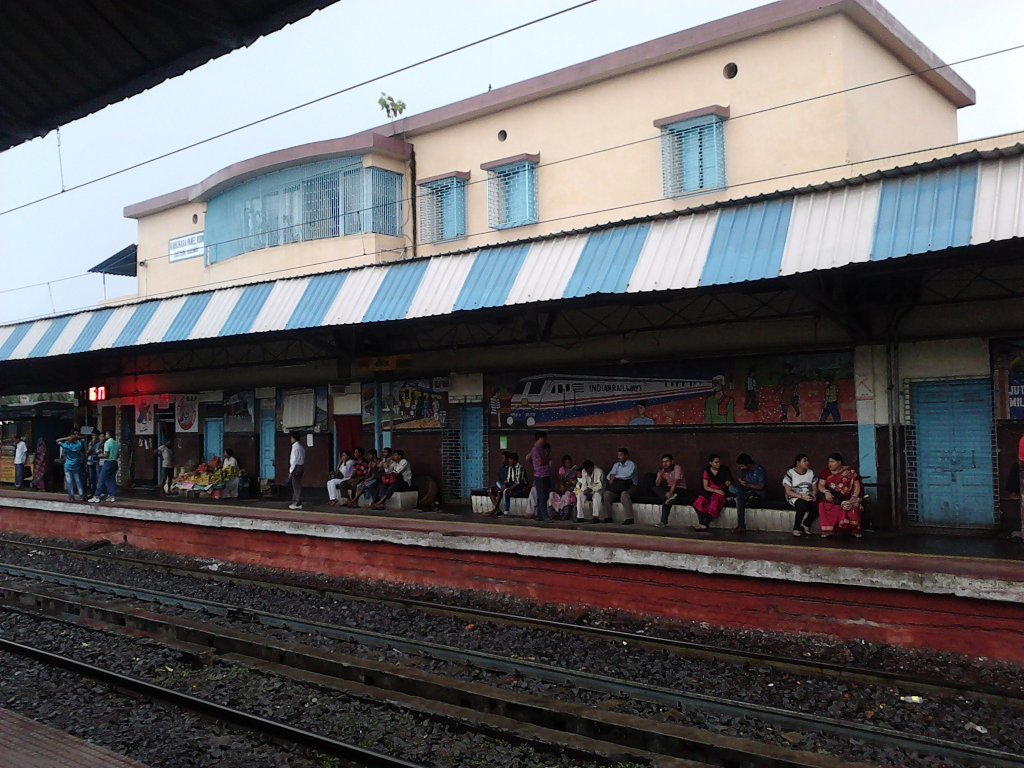 Photographed in greater Kolkata.